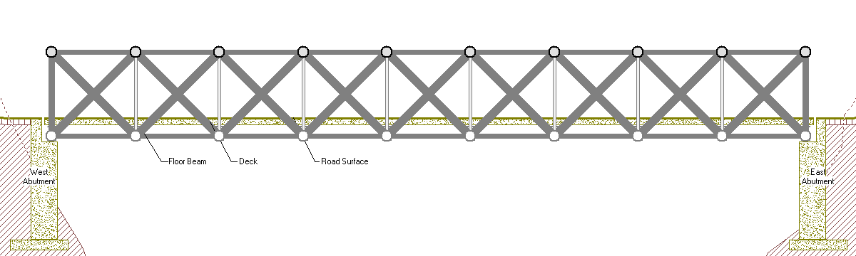 Diagram (side view) of a Brown truss